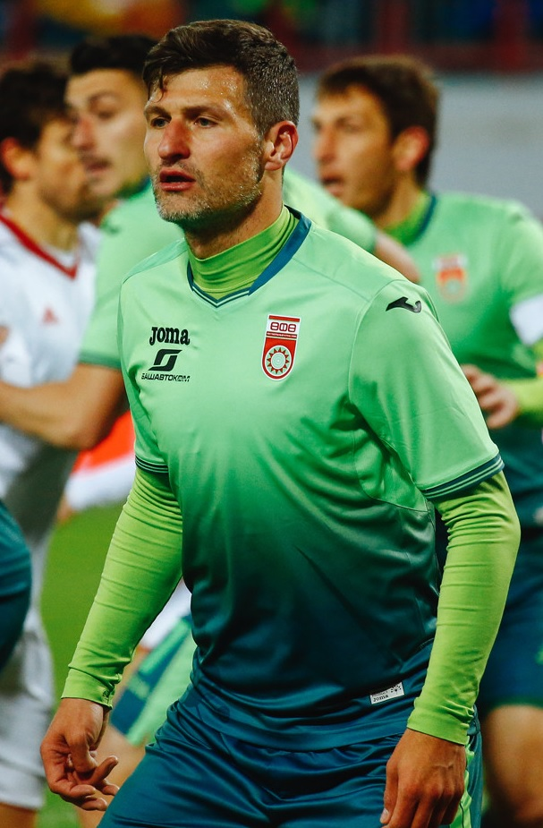 Vero Salatić with FC Ufa in a game against FC Lokomotiv Moscow.